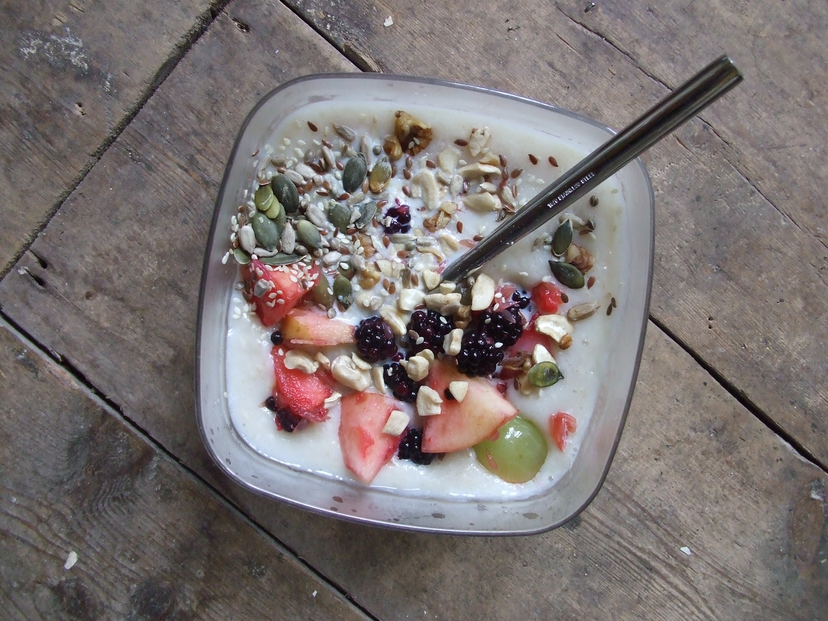 rolled oats cooked with water and soy milk, grapes, Fuji apples, nuts, seeds and blackberries picked minutes earlier